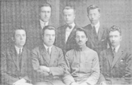 Popandov, Velev, Manev, Hadzhipanzov, Boyadzhiev.